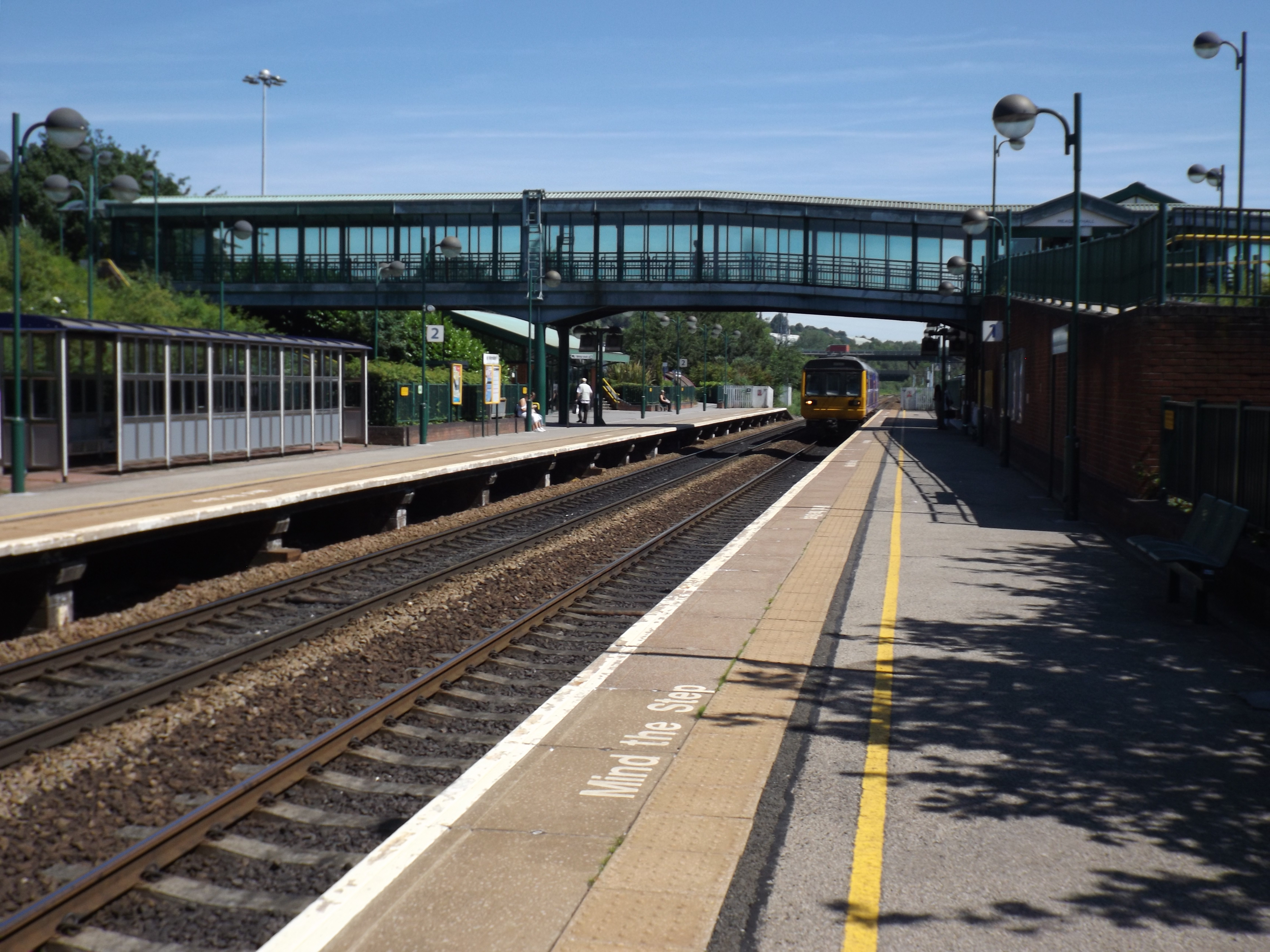 Meadowhall Interchange railway station viewed from platform 1.